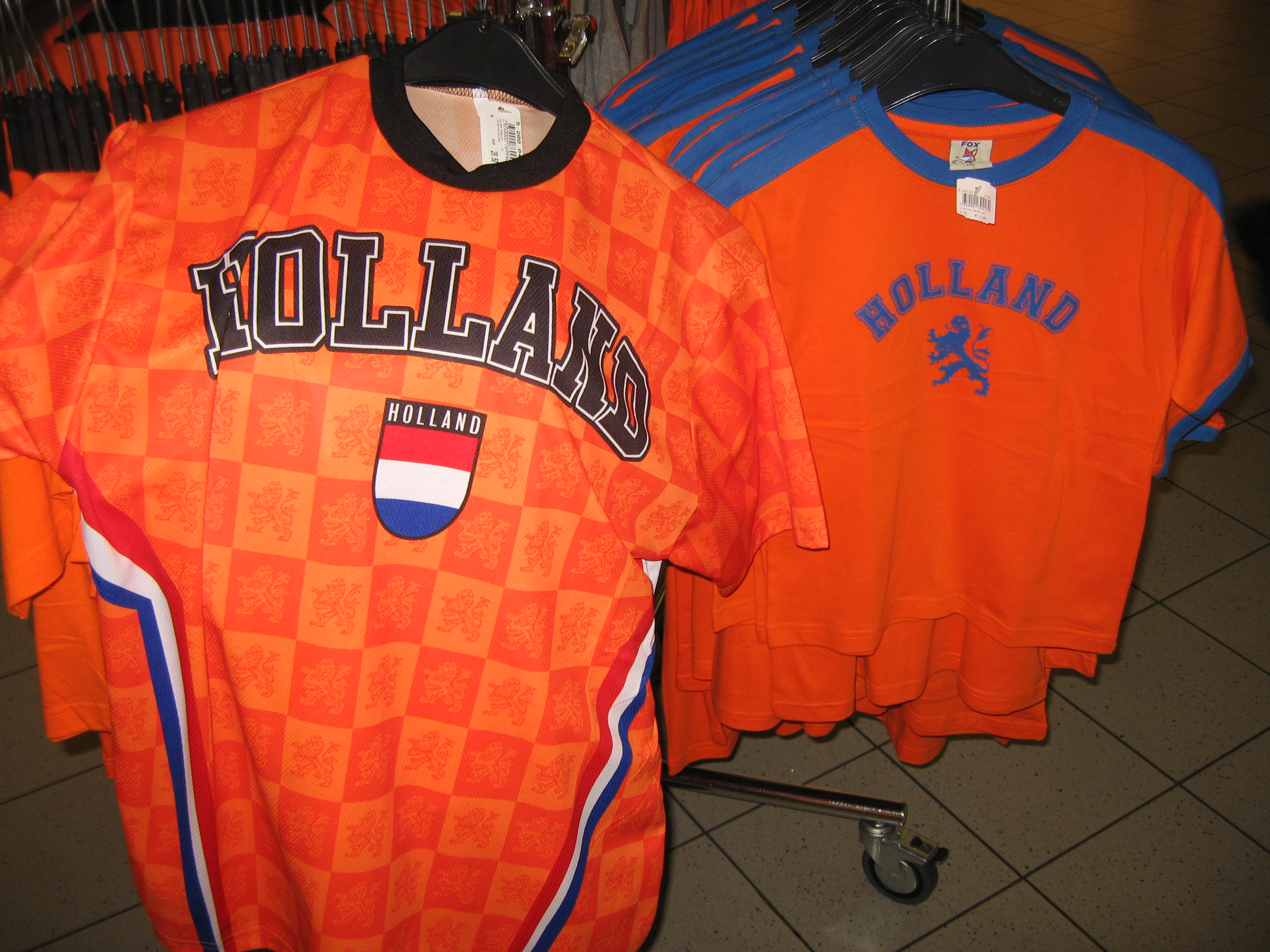 Dutch soccer fan's jerseys for sale at Amsterdam Airport summer 2008. Notably reading HOLLAND.